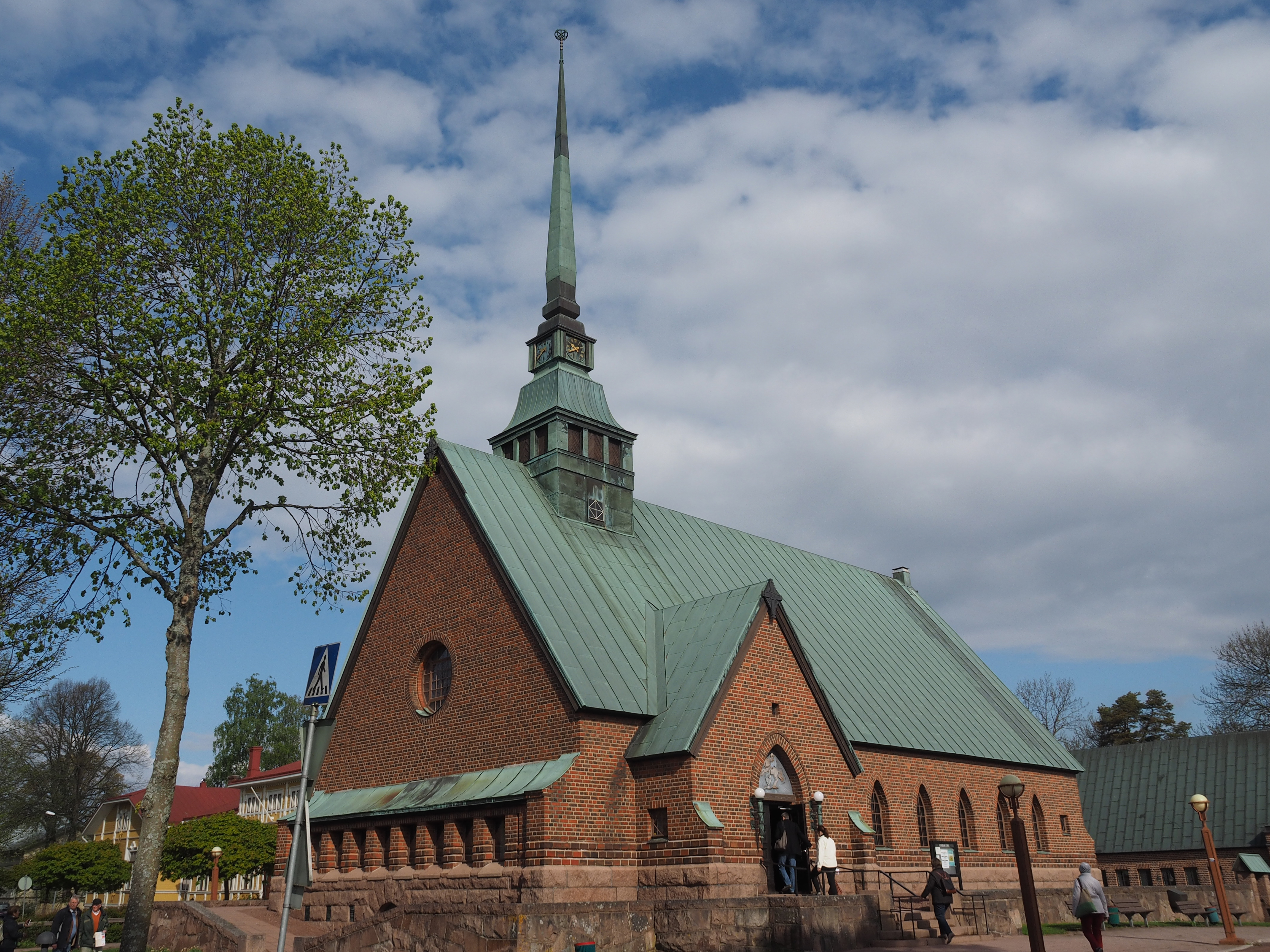 Saint George Church in Mariehamn, Åland, Finland